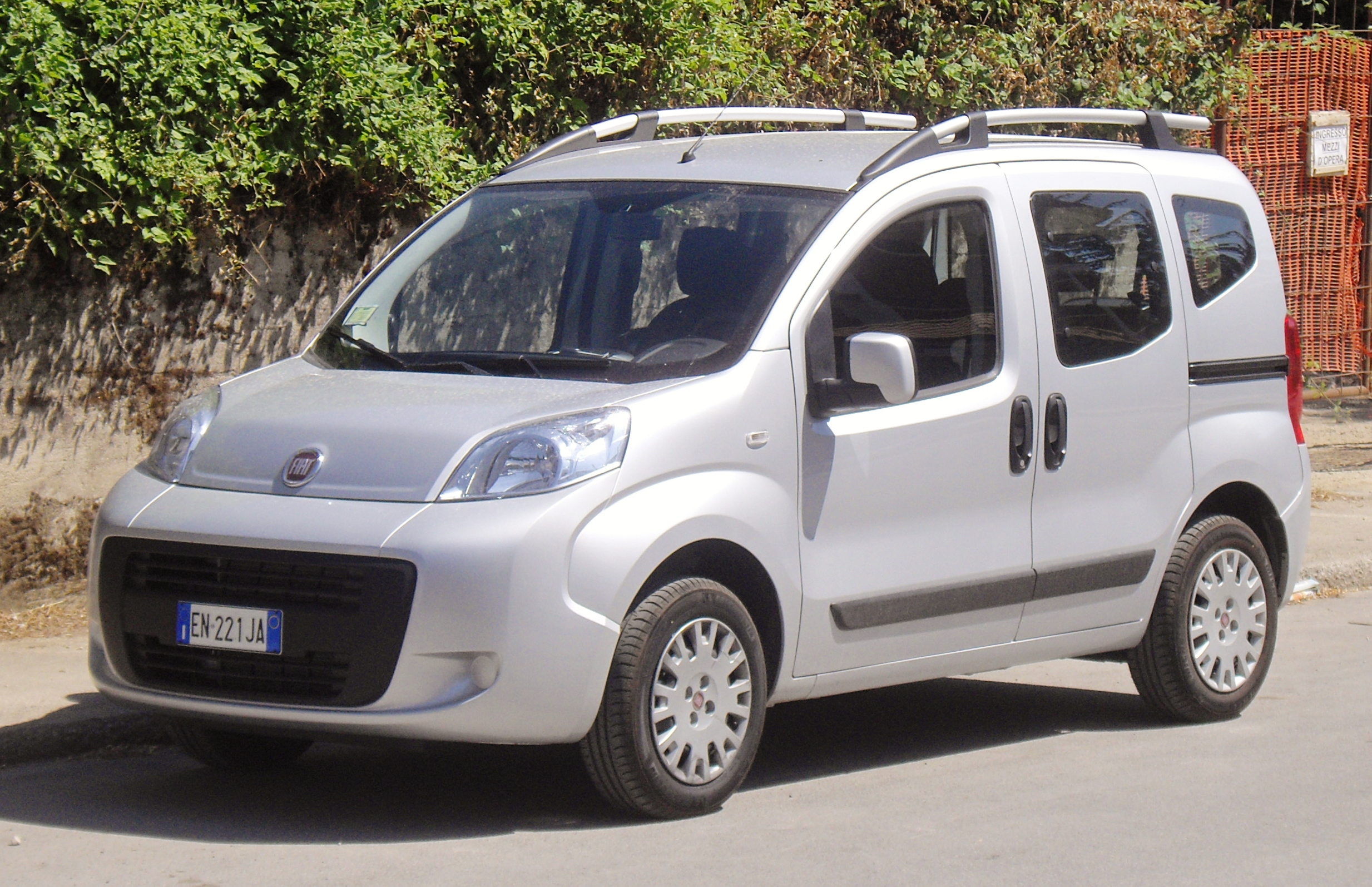 Fiat Qubo 1.4 Natural Power